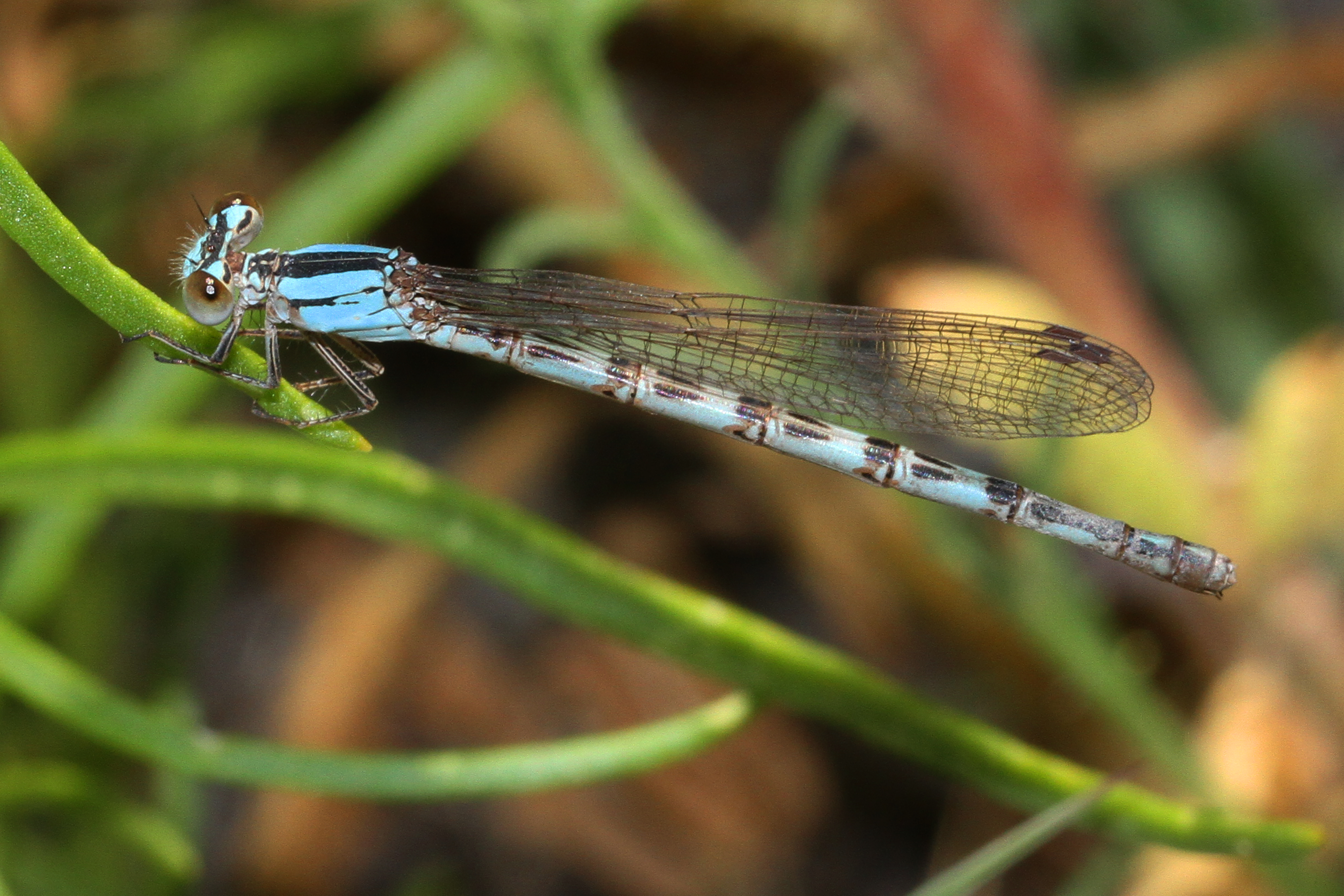 Paiute Dancer - Argia alberta, Bitter Lakes National Wildlife Refuge, Roswell, New Mexico